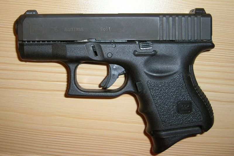 Subcompact Glock 26 with tritium night sights and aftermarket Pearce-brand grip extender in 9x19mm Parabellum.